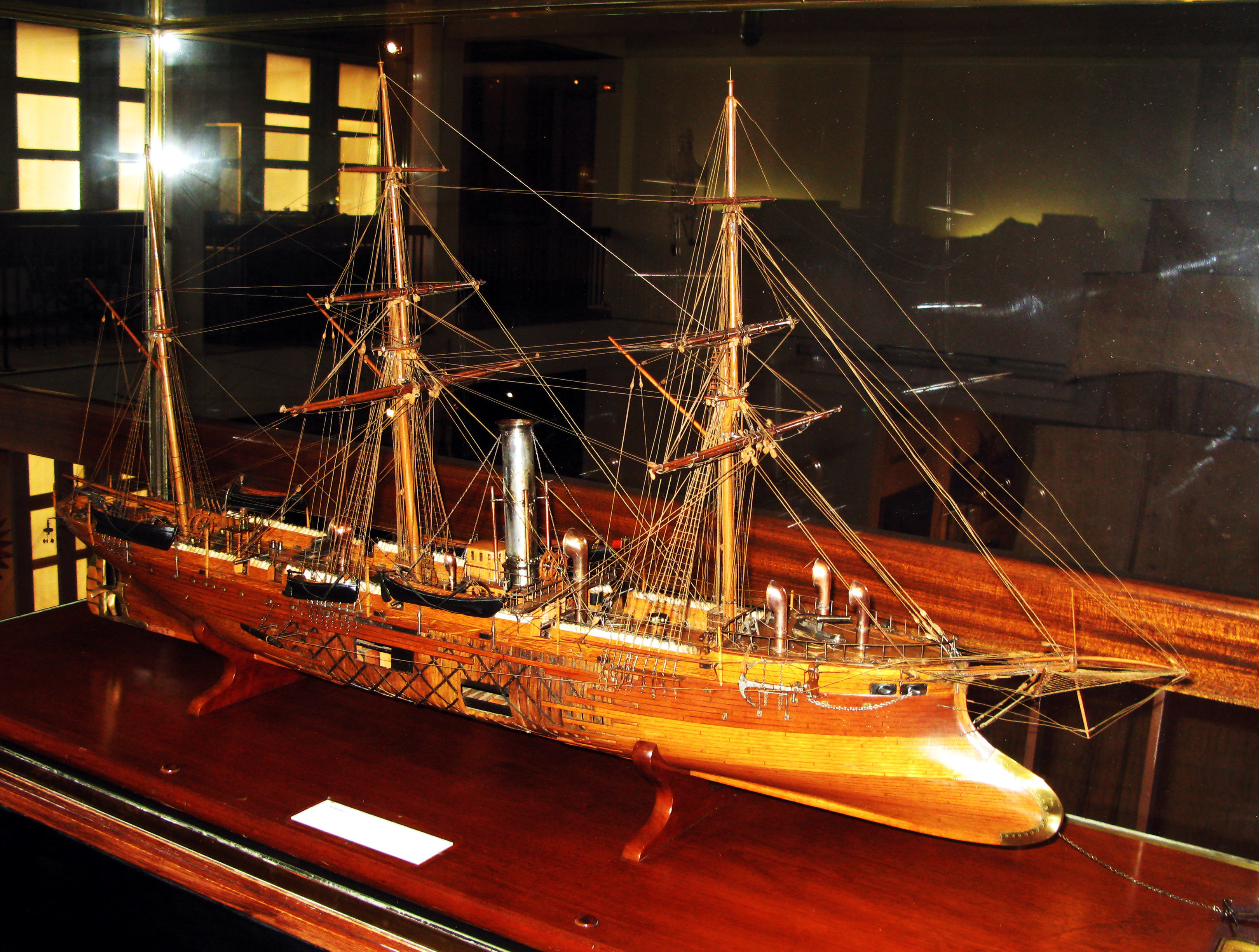 Scale model of the Éclaireur, 3rd class aviso of the French Navy (1877). On display at Toulon naval museum, access number 33 MG 7